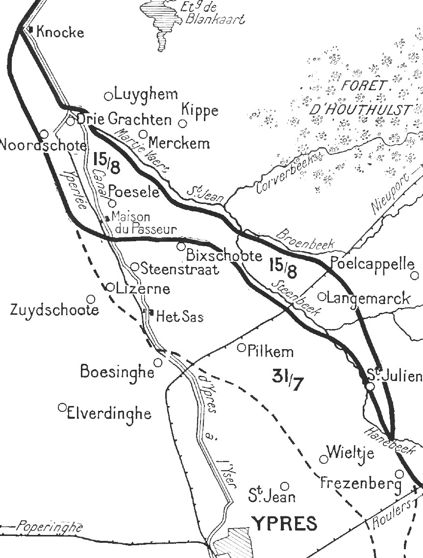 Diagram of Anglo-French advance to Bixschoote 31 July and Langemarck 16-18 August 1917